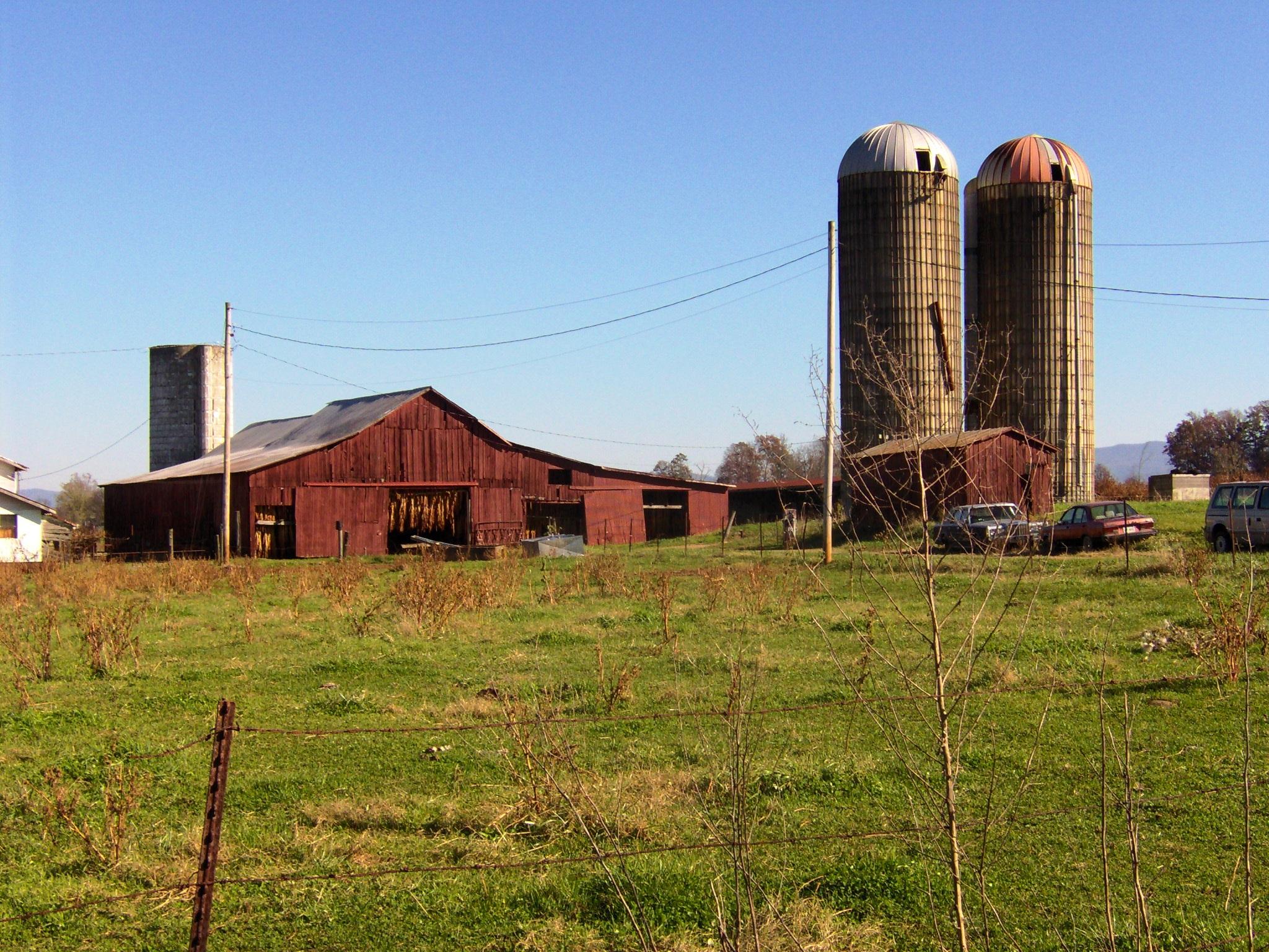 Tobacco barn and silos at the Broyles Farm in Greene County, Tennessee, USA. The land was originally part of the farm of Henry Earnest, Jr., and purchased by the Broyles family in the early 1900s. The barn (filled with tobacco) and the storage shed (right, beneath the silos) were built in the 1920s. The shorter silo (behind the barn, on the left) was built in the 1940s, and the two taller silos on the right were built in the 1950s. Coordinates: N 36.20643, W 82.67126